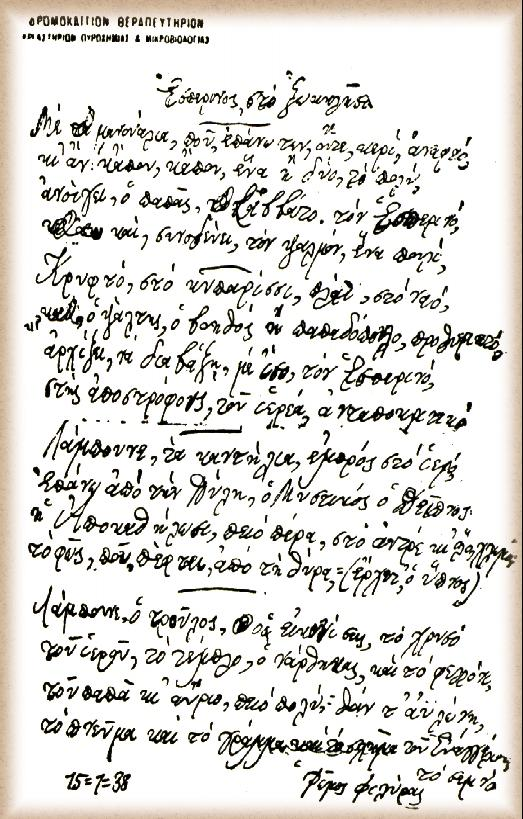 Romos Filiras manuscript